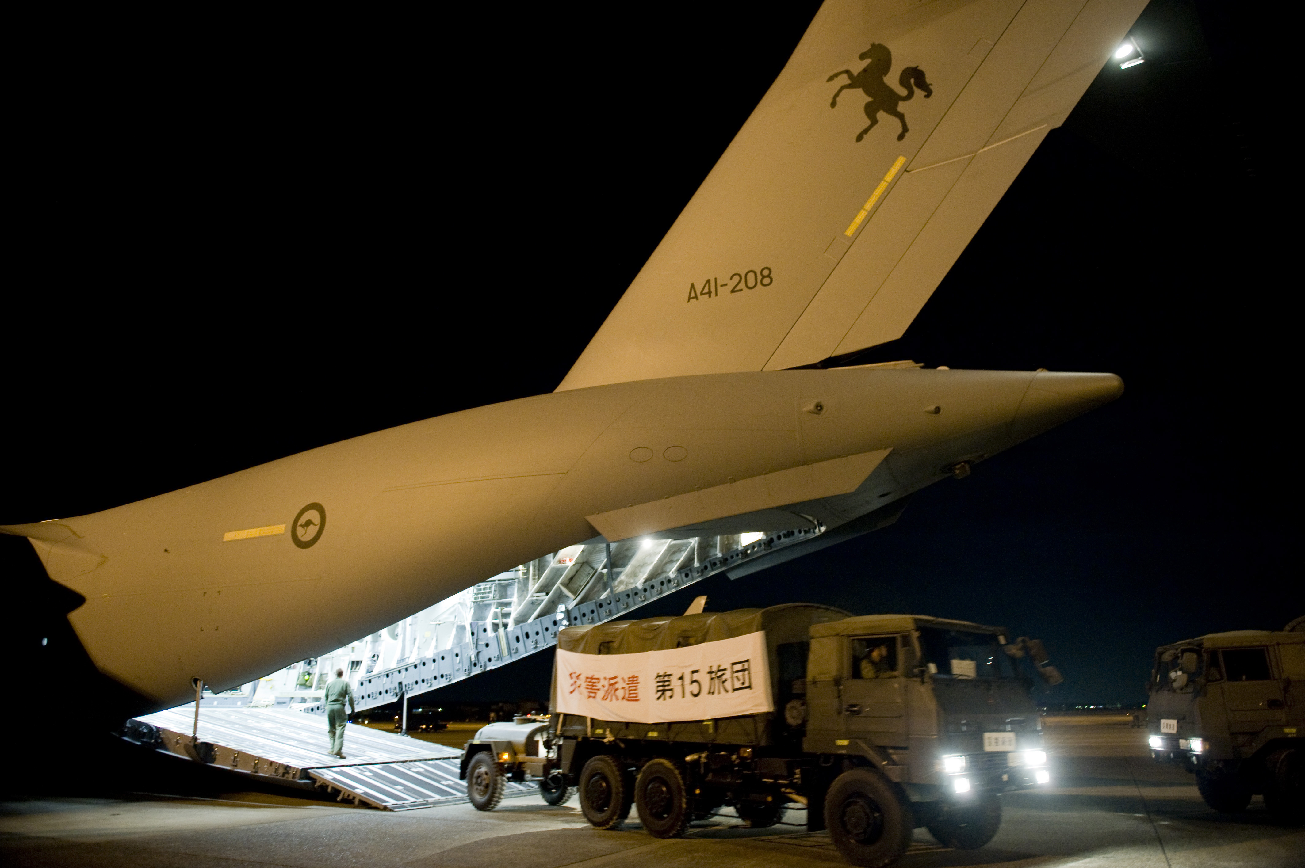 YOKOTA AIR BASE, Japan -- A Japan Ground Self Defense Force vehicle drives off an C-17 Globemaster III from the Royal Australian Air Force 36th Airlift Squadron here March 18. The RAAF transported the JGSDF's 15th Brigade from Okinawa to help with Japan's earthquake and tsunami relief effort.